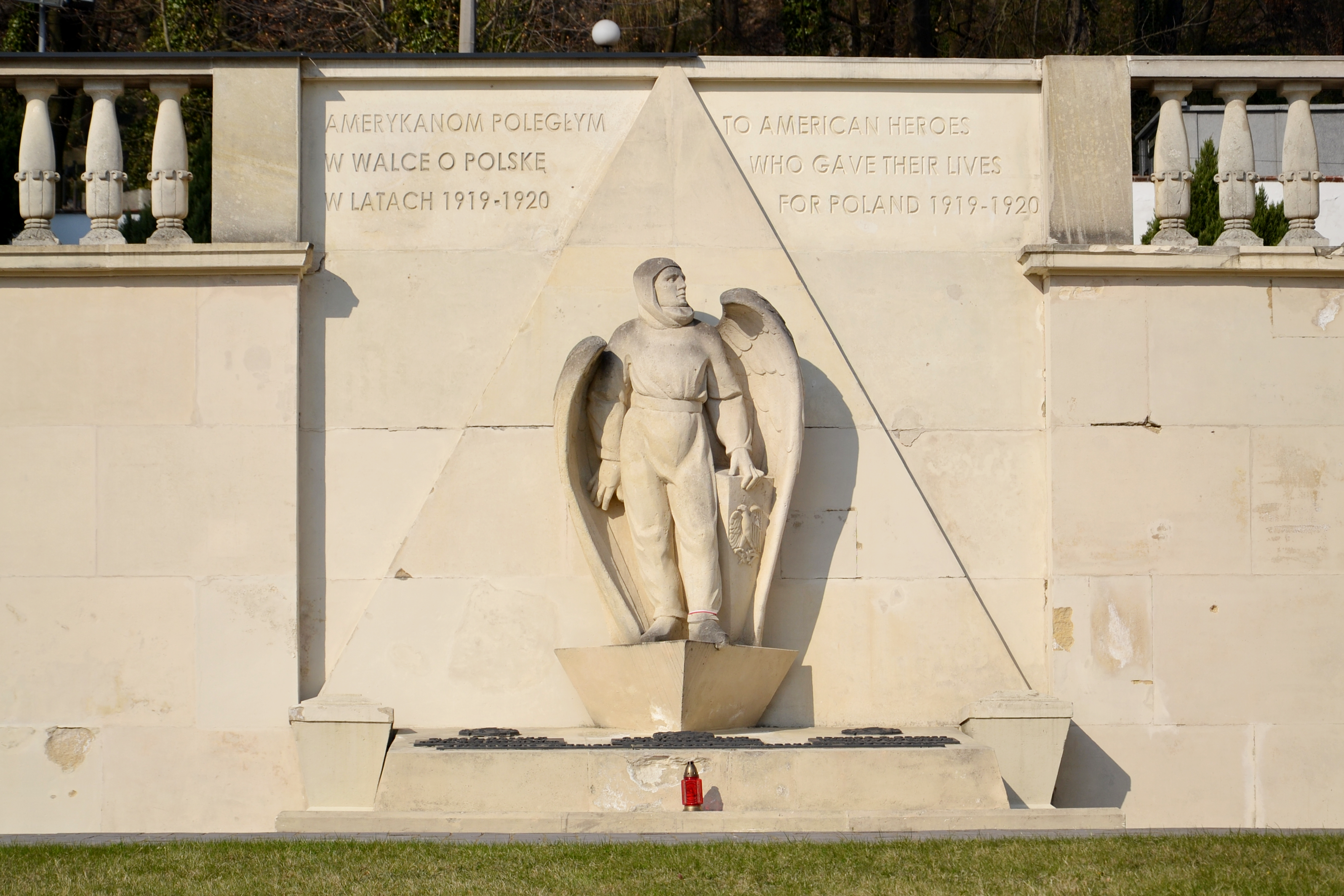 American Aviatars Monument at the Lwów Defenders Cemetery in Lviv, Ukraine